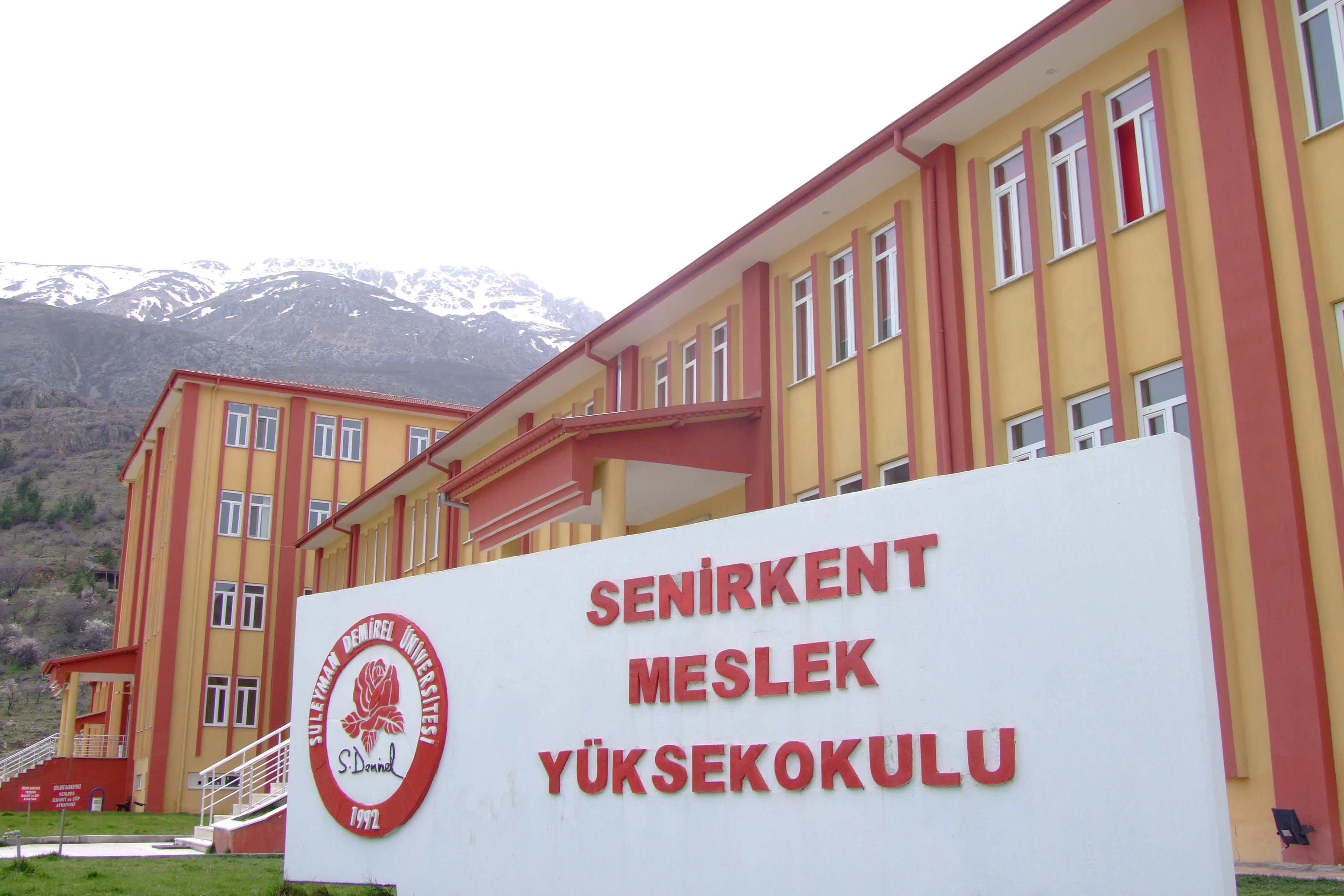 Senirkent Vocational School